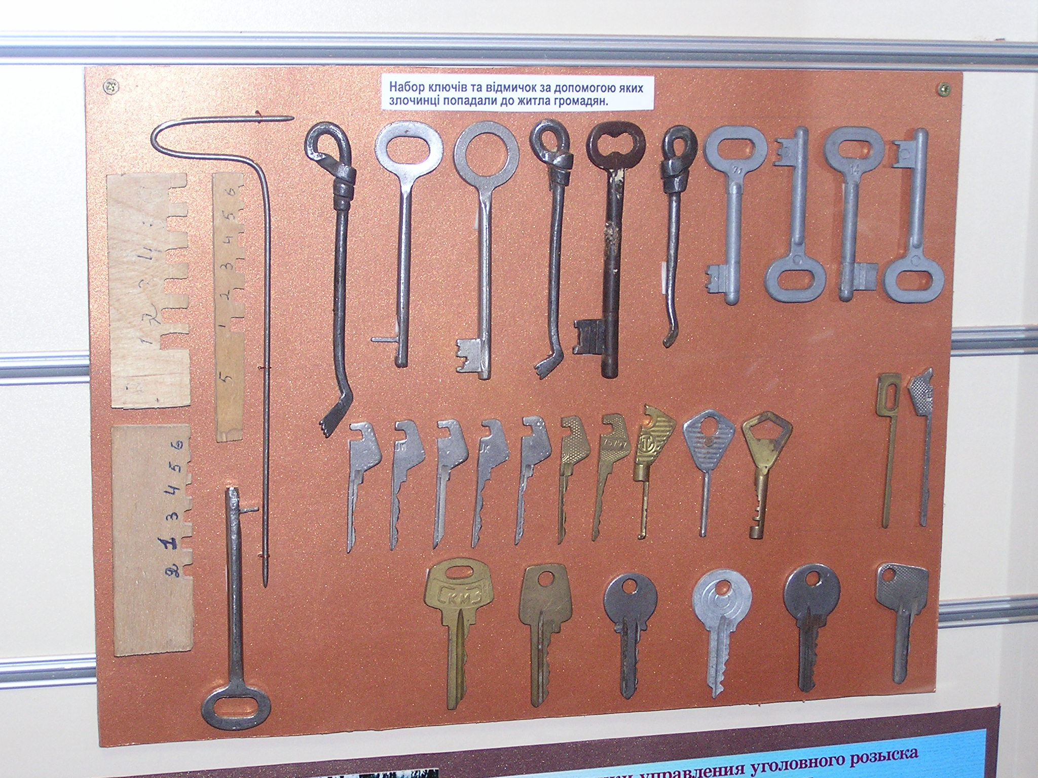 Museum of the History of Donetsk militsiya